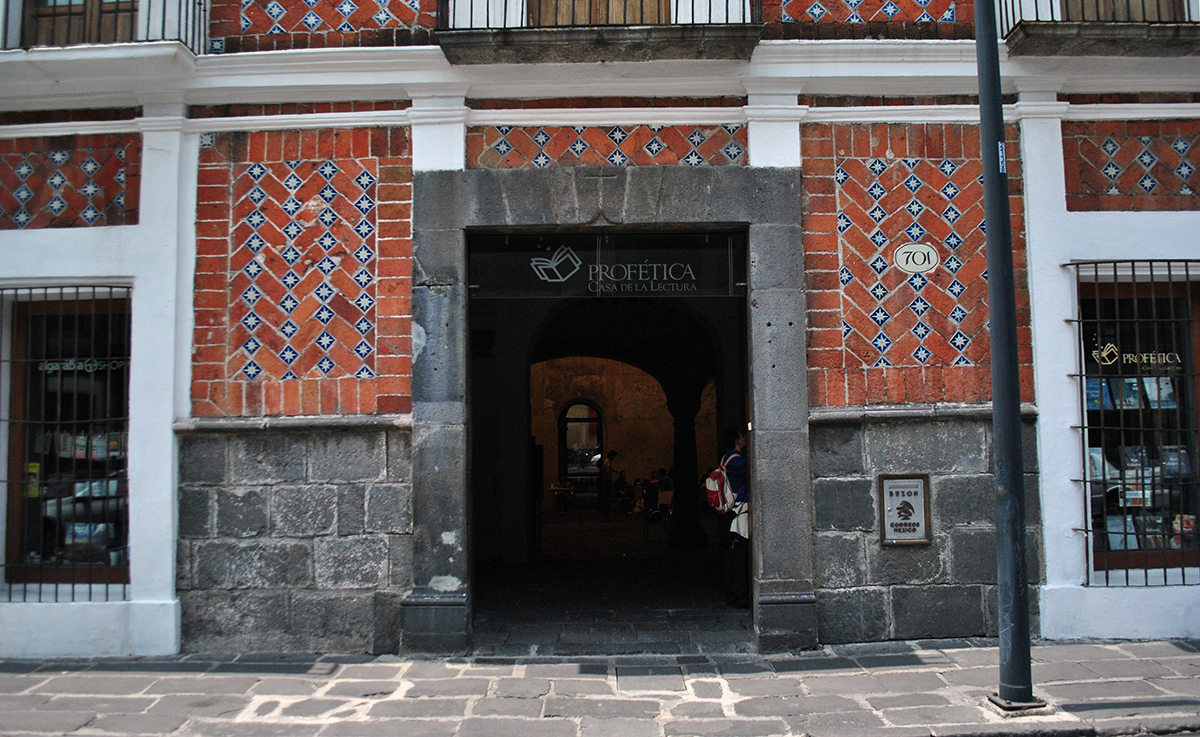 The Third Edit-a-thon of the city of Puebla was a marathon of editing Spanish Wikipedia with reliable sources, in order to expand and improve the quality of articles on a given topic. Was performed in Profética casa de la lectura and was organized by Puebla Wikipedians and Wikimedia México